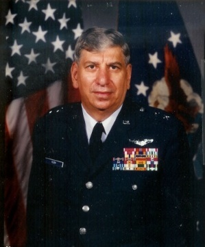 Mr. Jacques P. Klein Air Force Career